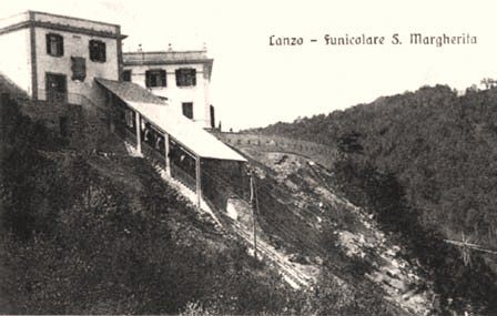 Lanzo d'Intelvi funicular - postcard